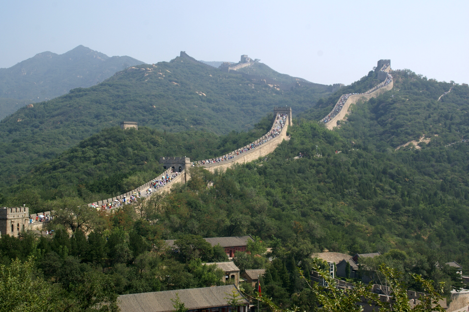 Great Wall - Badaling, 18.9.2014